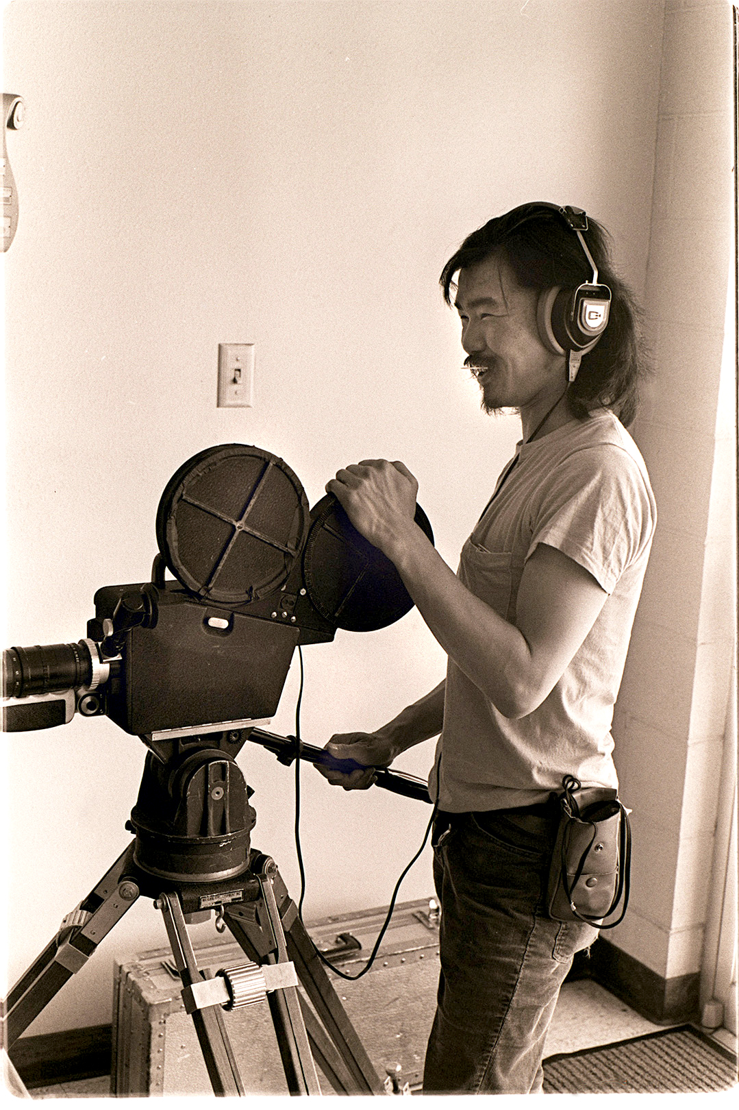 Curtis Choy, documentarian of "Wendy...Uh... What's Her Name" with the CP-15 (Cinema Products 16mm camera.